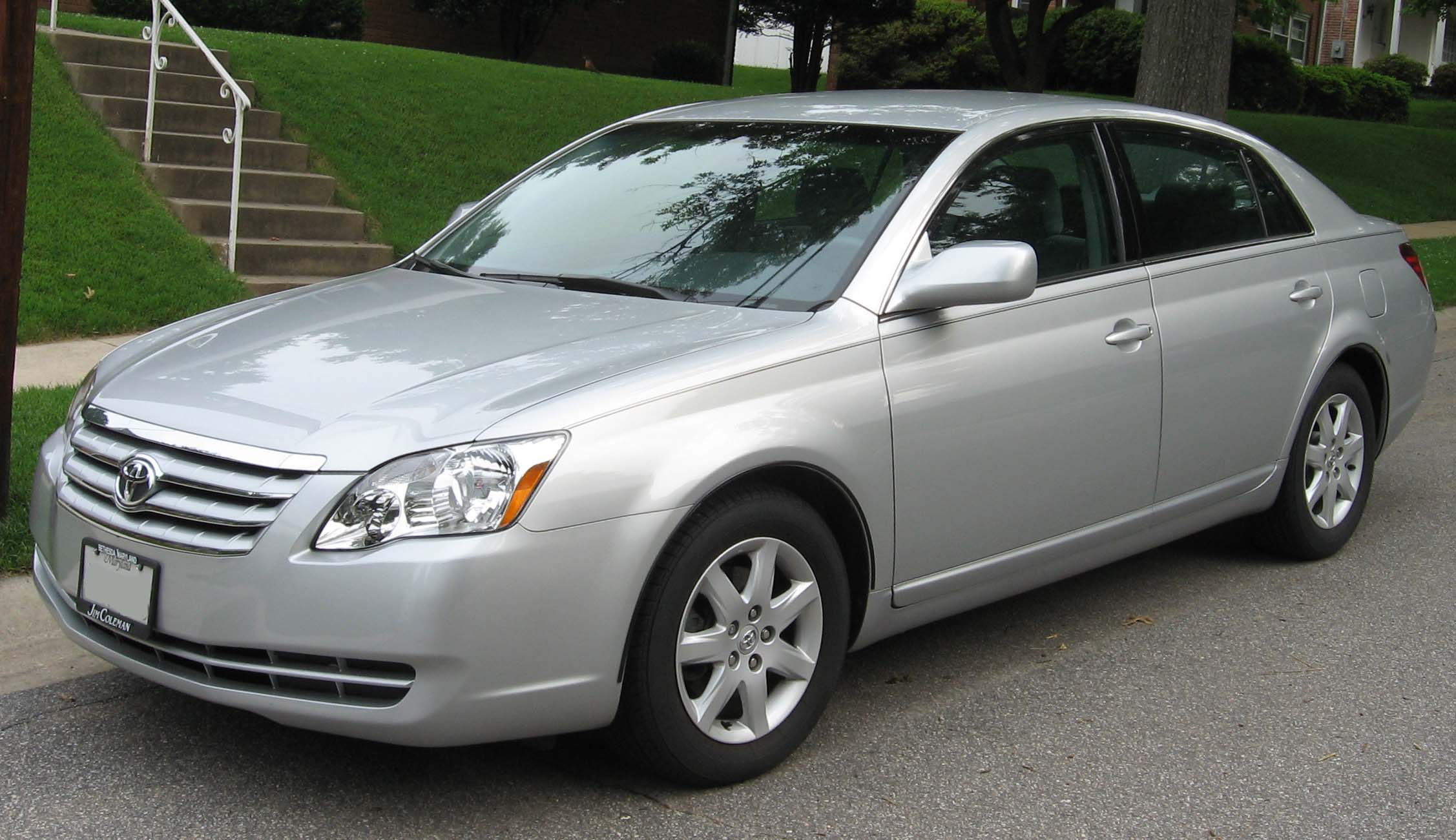 2005-2007 Toyota Avalon photographed in Kensington, Maryland, USA.